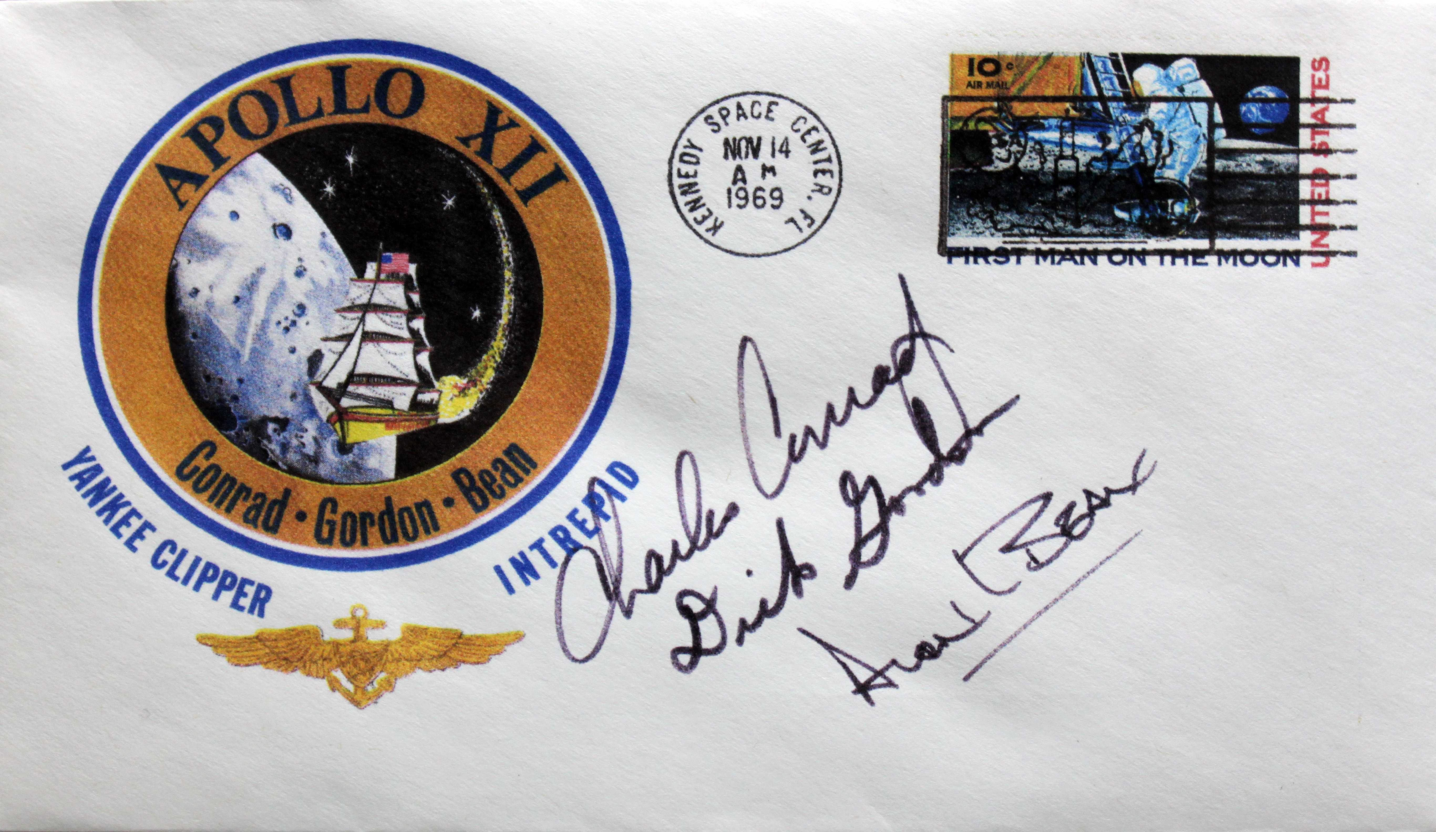 Insurance cover of Apollo 12 mission (14 to 24 November 1969) in the Technik Museum Speyer, Germany. Signed by the Crew: Commander Charles "Pete" Conrad, Command Module Pilot Dick Gordon and Alan Bean, Pilot of the Lunar Module. Insurance covers from Apollo 11 to Apollo 16 were signed by the crew members in quarantine just before the start. Those documents limited to a few hundred copies are the rarest and therefore most expensive letters of those missions. They were handed over to the families of the crew members after signing as an insurance form. In case of a failure of the mission and the death of the astronauts, no conventional insurance coverage existed, the family members could sell those covers.